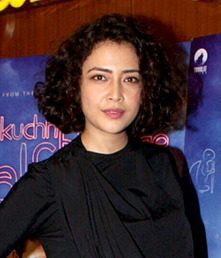 Geetanjali Thapa at the premiere of film Kuchh Bheege Alfaaz.